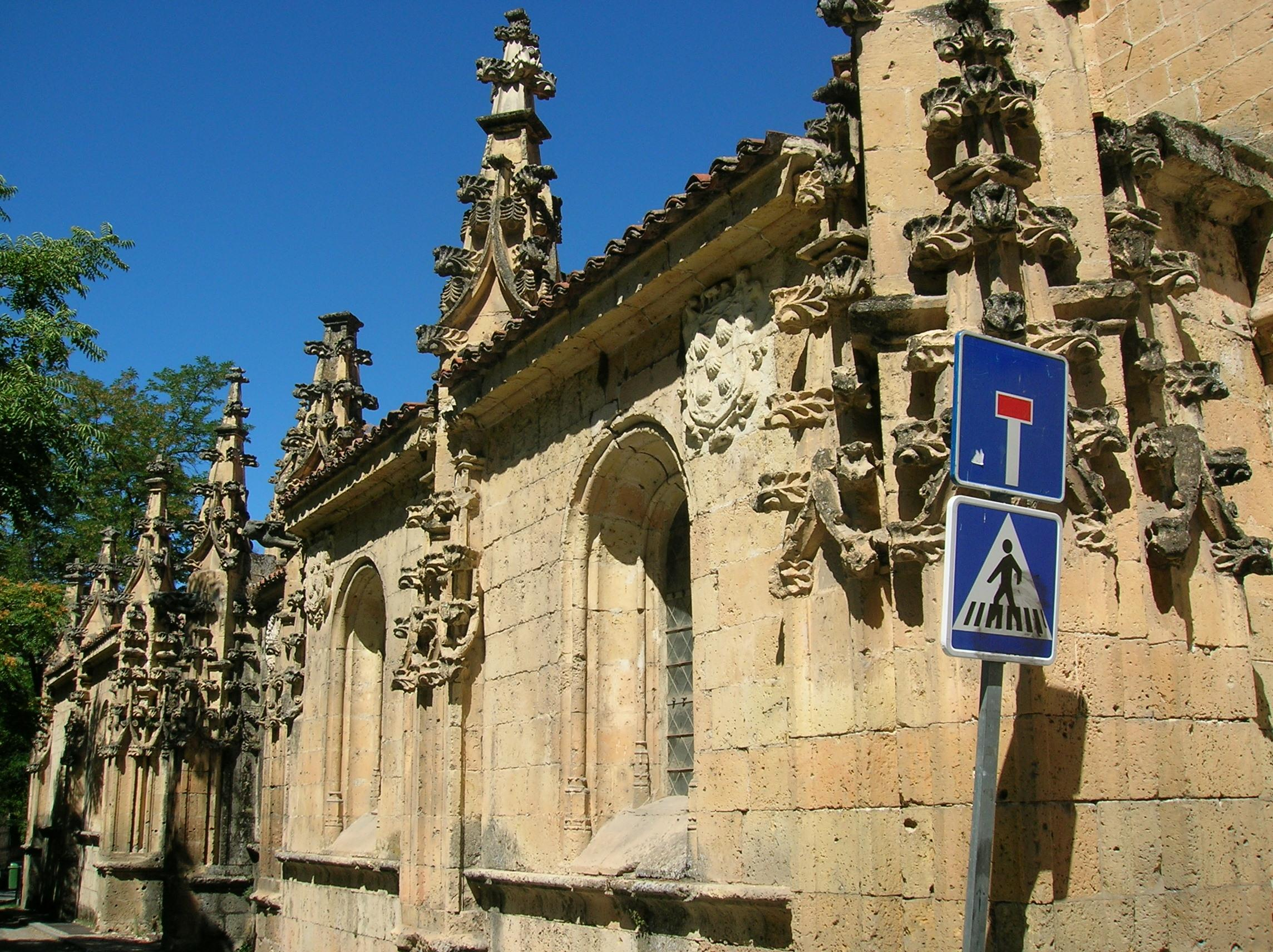 Monasterio de Santa Cruz la Real-Universidad SEK (Segovia, España)